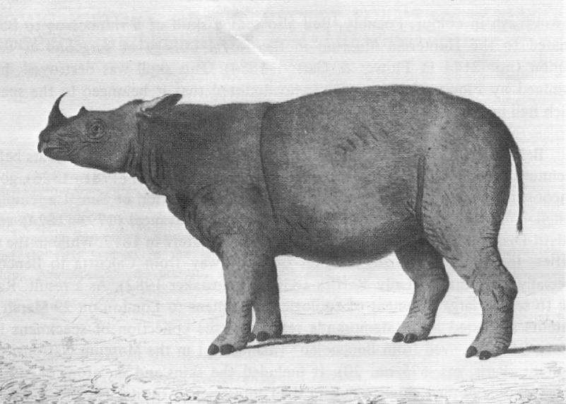 The Sumatran rhinoceros was first examined and drawn by William Bell in 1793.